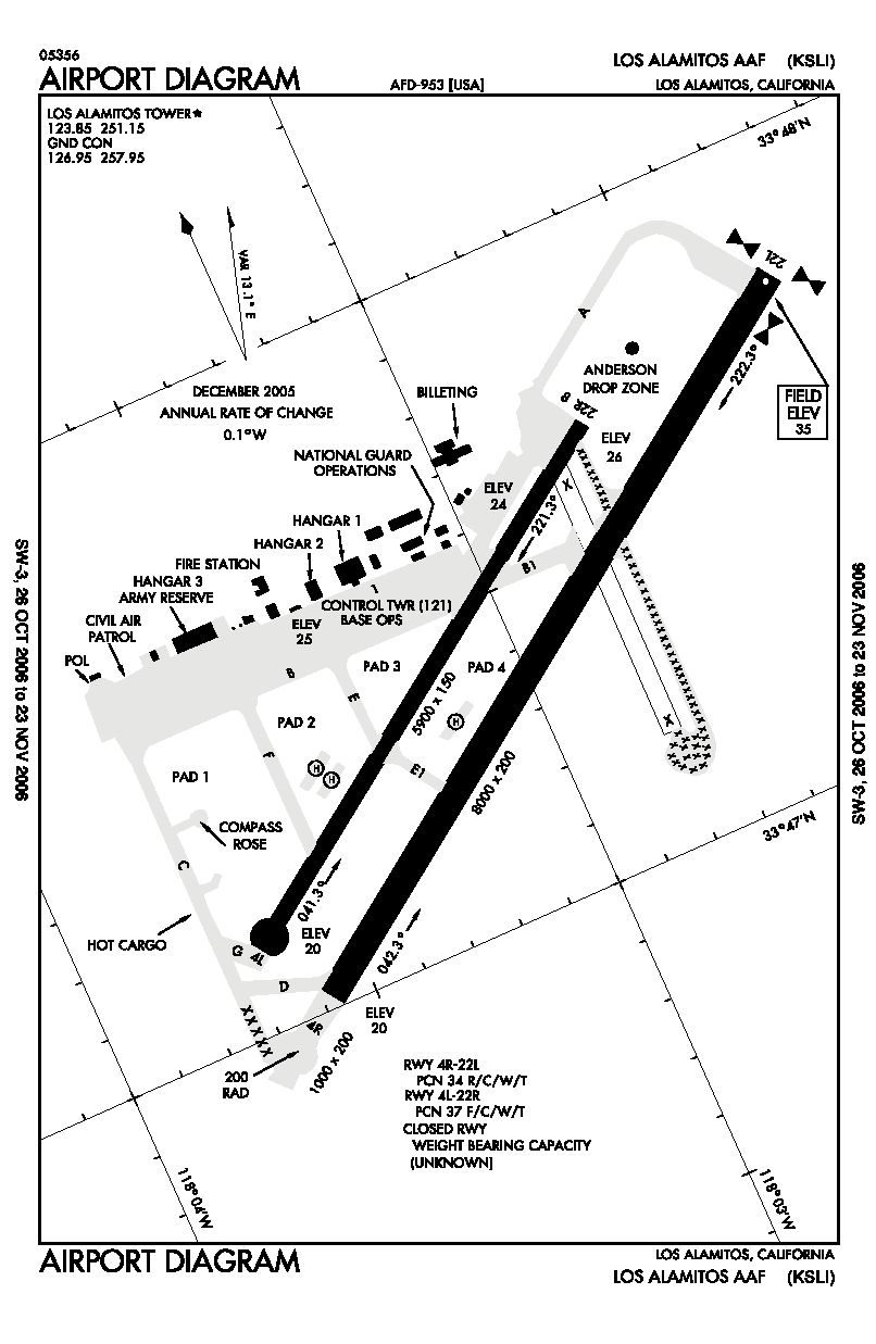 FAA airport diagram for SLI (Los Alamitos Army Airfield) in California, United States.